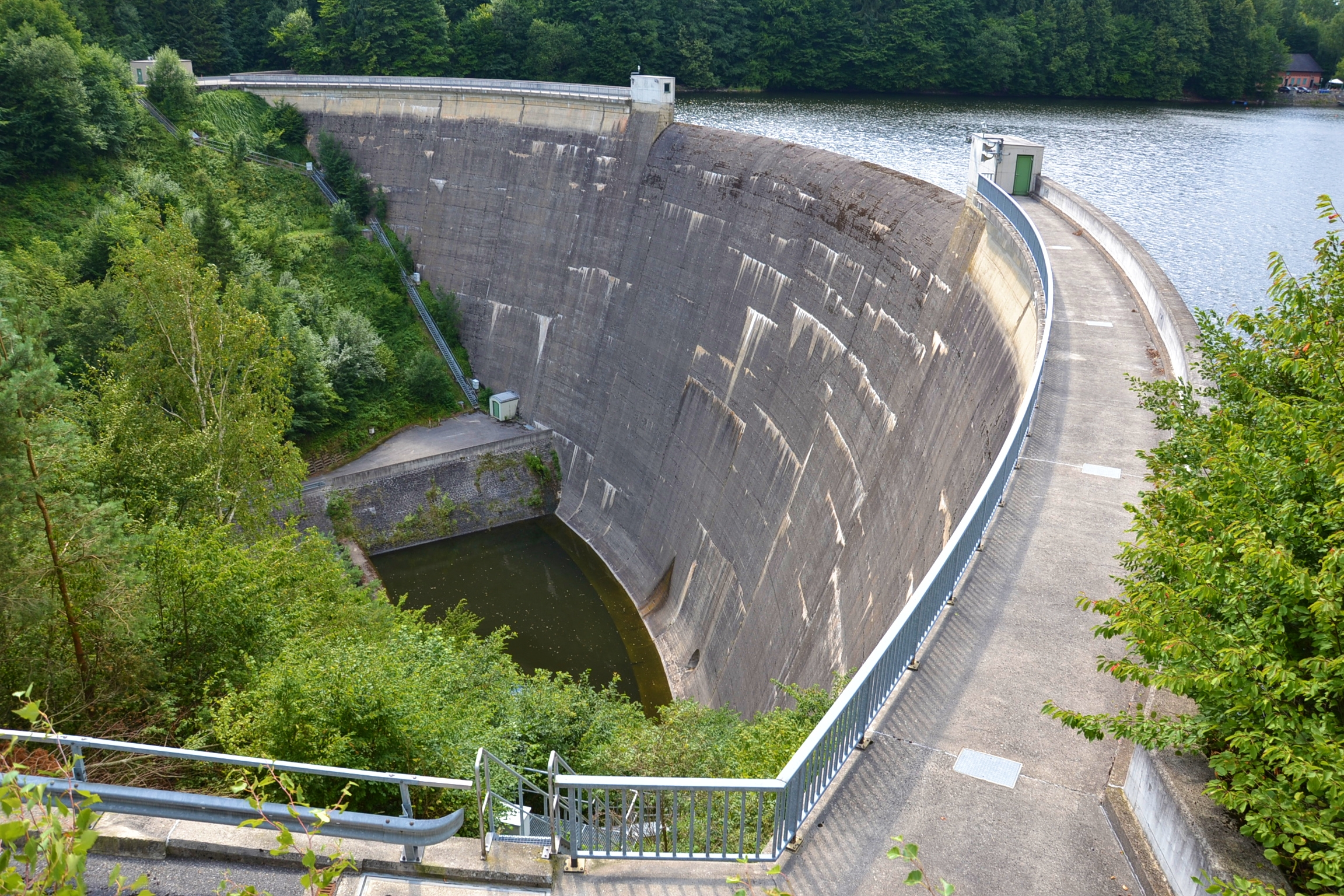 Concrete dam of the powerstation with reservoir Dobra in Lower Austria